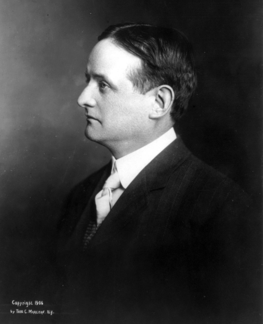 John F. Fitzgerald, bust portrait, profile